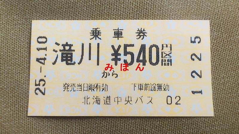 Bus ticket of Hokkaido Chuo Bus